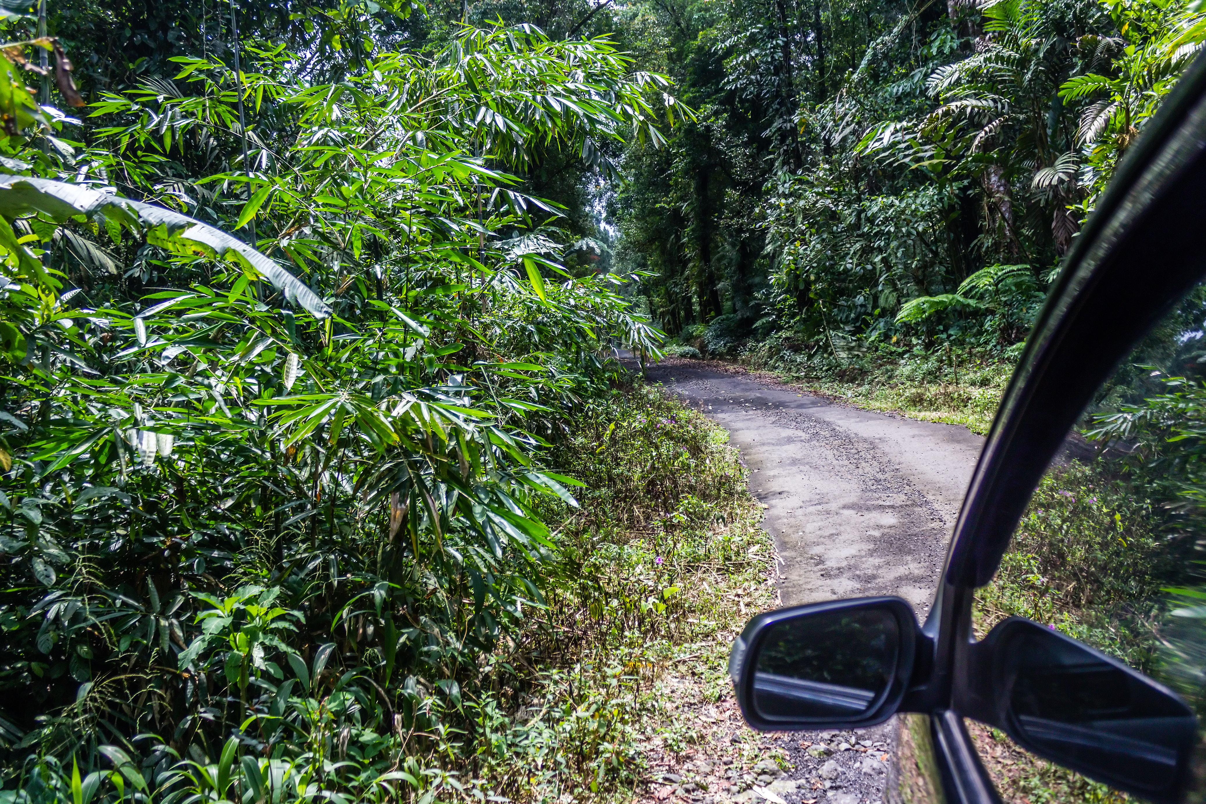 Road from Pancuran Tujuh, near Baturraden, Purwokerto, 2015-03-23